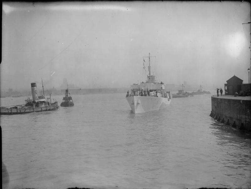 The Royal Navy during the Second World War The corvette HMS BELLWORT entering Victoria Wharf, Birkenhead.